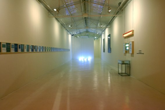 " Gedley Braga, Love & Hate" installation. General view. Gabinete de Arte Raquel Arnaud - Sao Paulo - Brazil - 2005. Photo: Wagner Souza E Silva